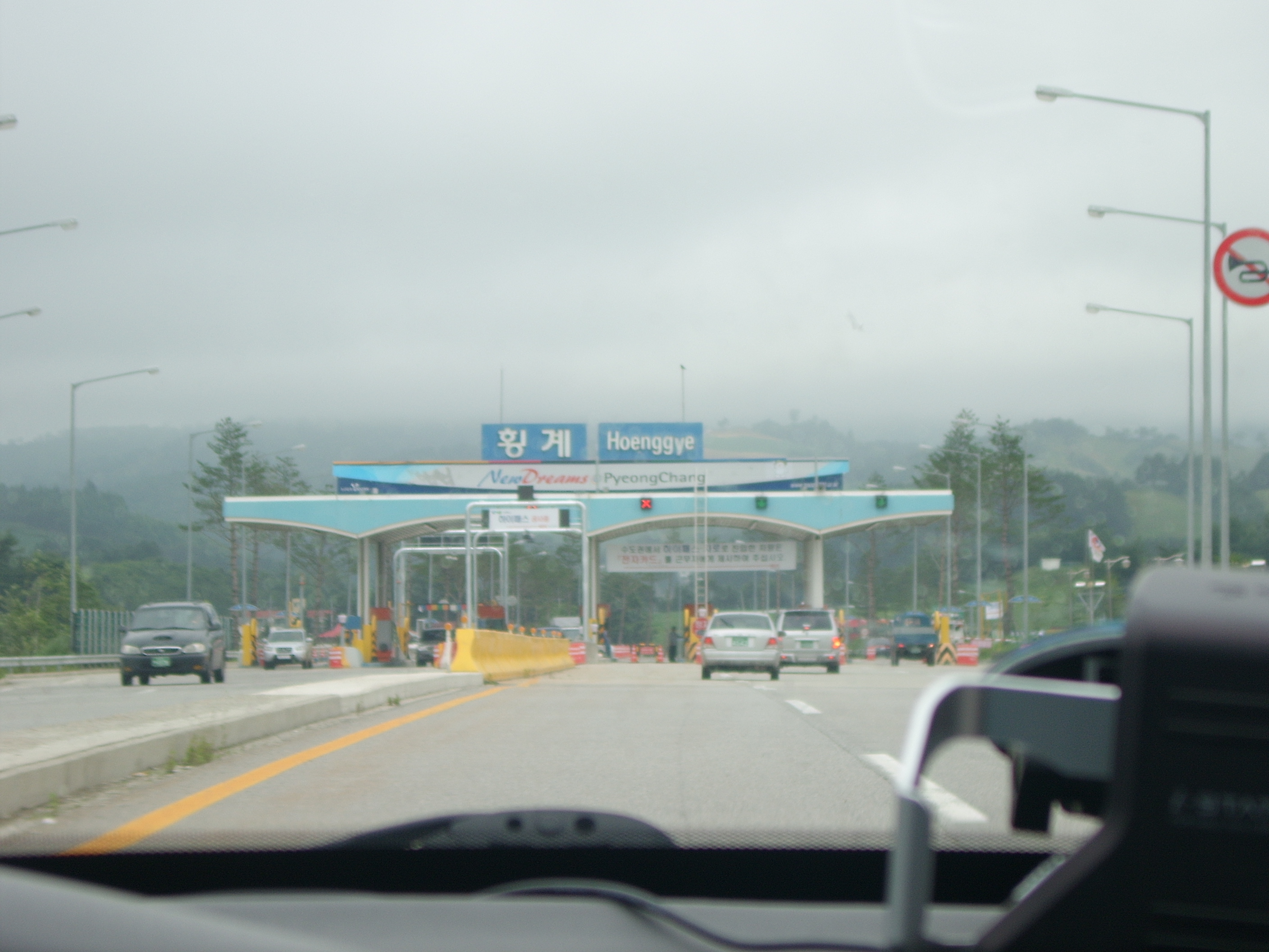 Toll gate Hoenggye IC Yeongdong Expressway